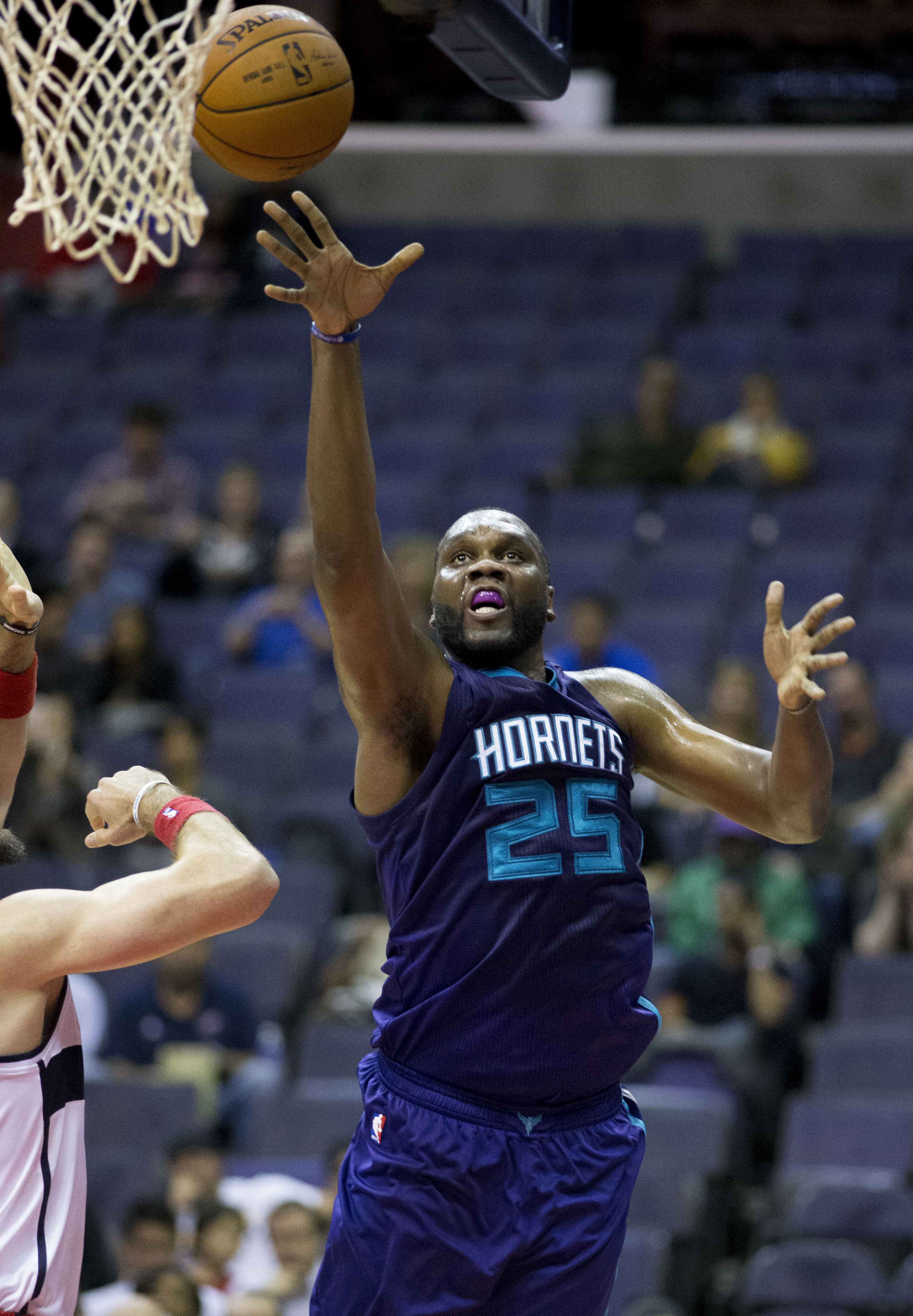 Hornets at Wizards 10/17/14